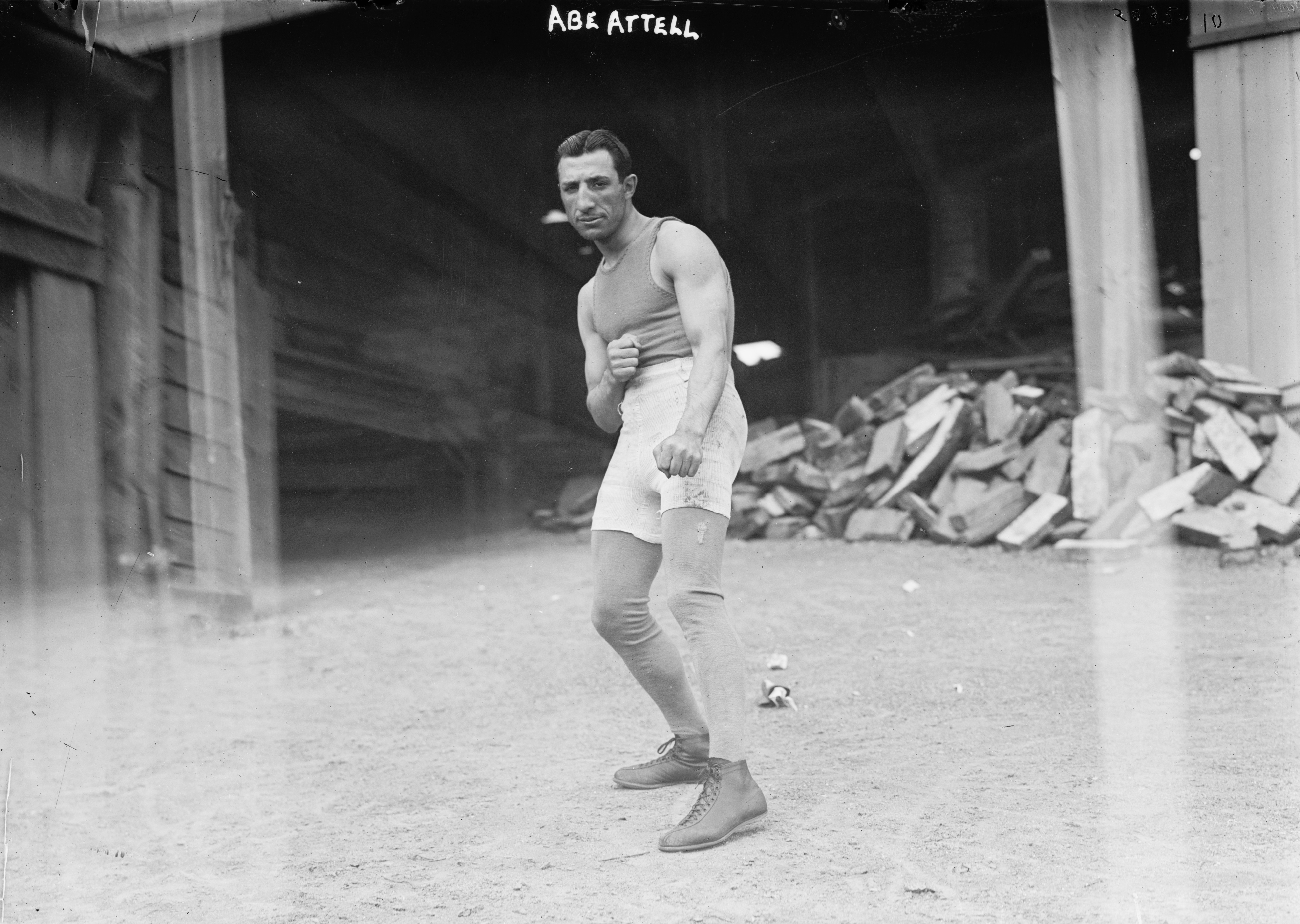 Abe Attell, an American boxer